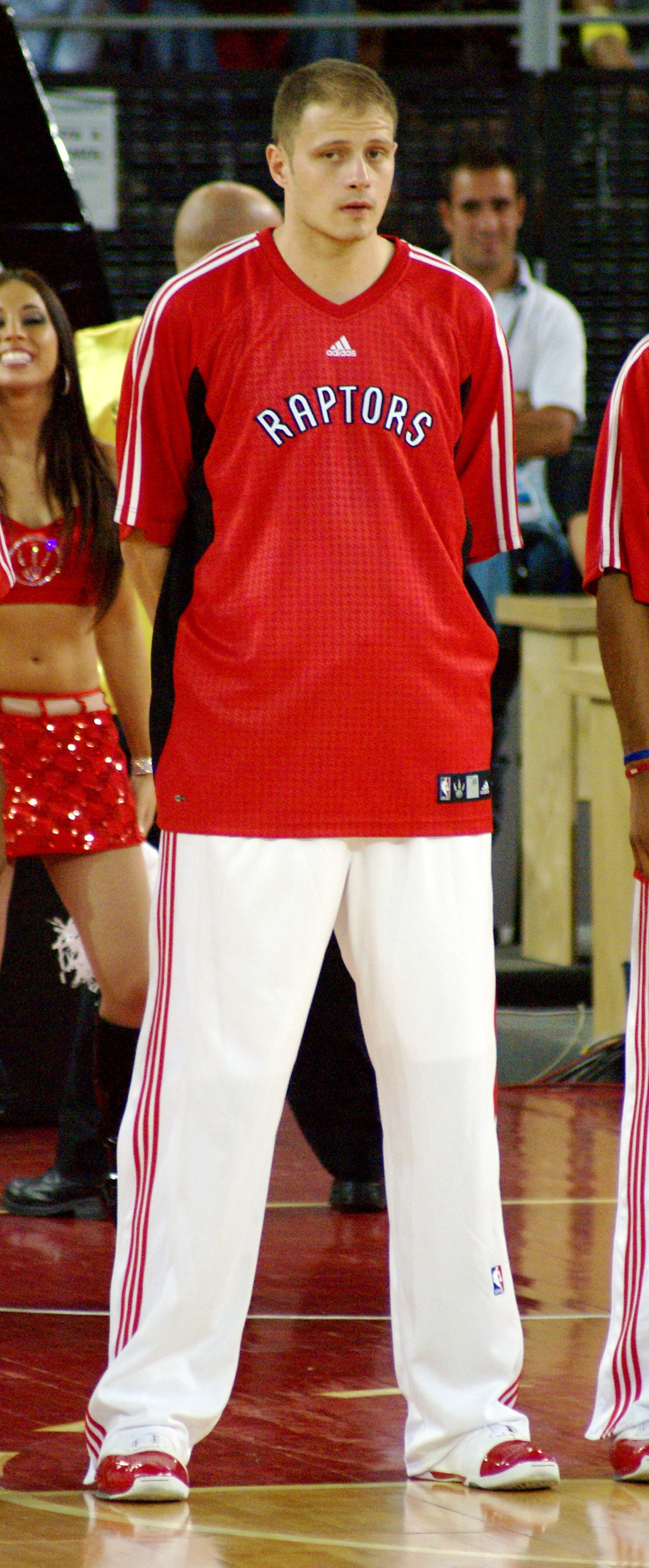 Rasho Nesterovič